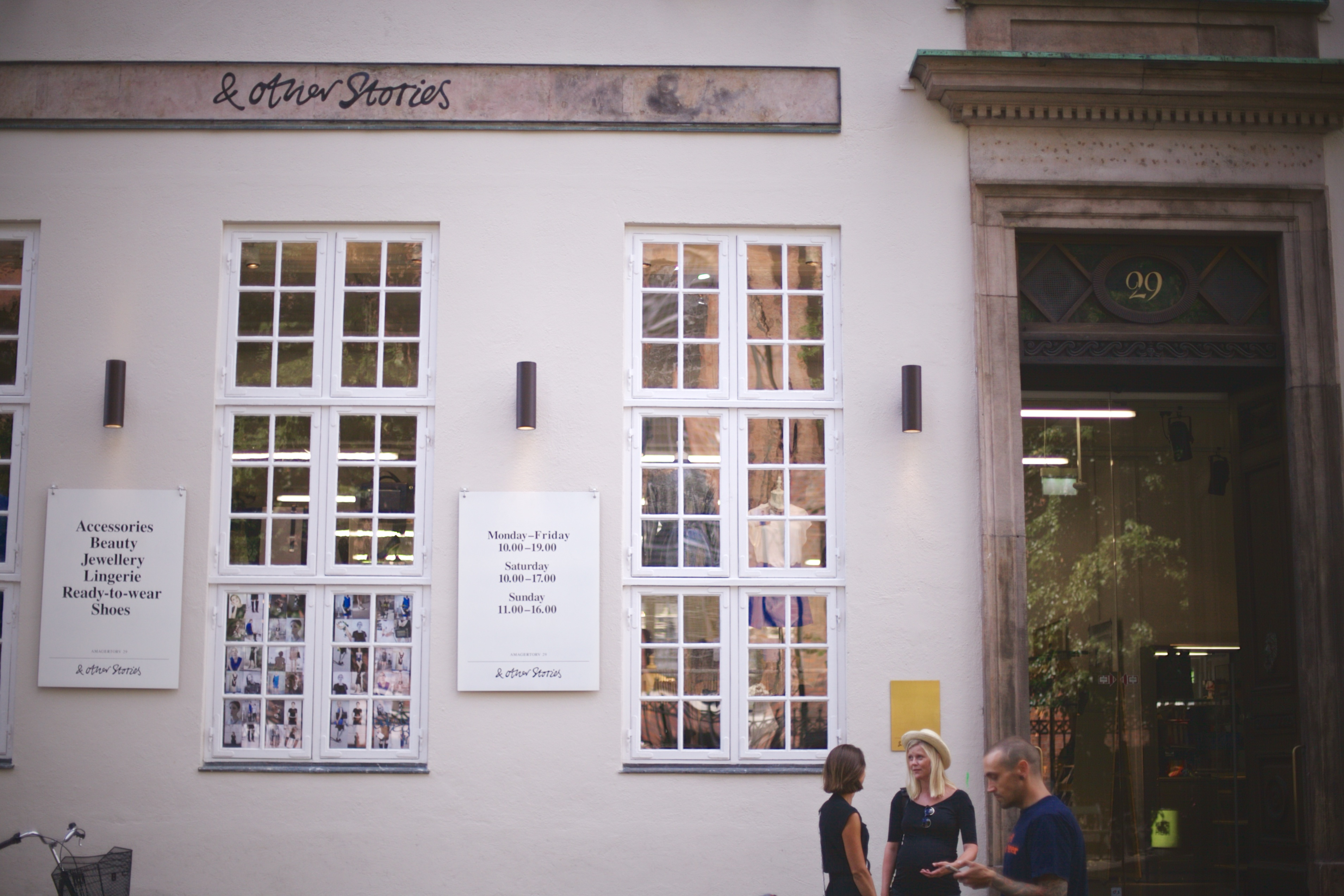 The & Other Stories store at 29 Amagertorv in Copenhagen, Denmark